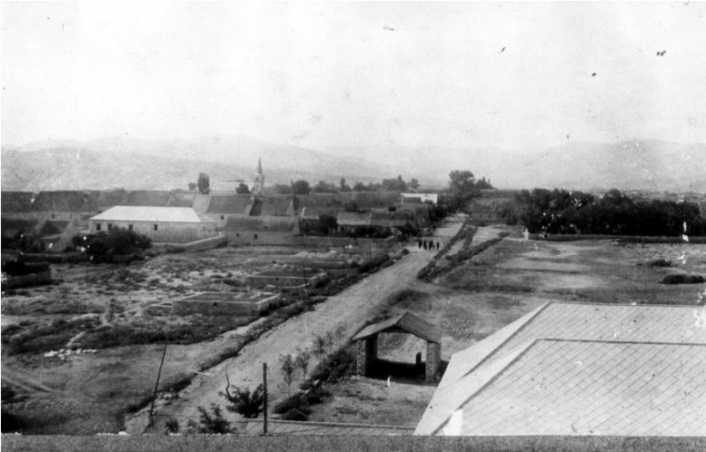 View to Annanfeld (today - Shamkir, Azerbaijan)